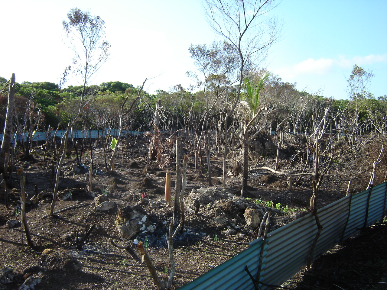 field in Lifou, Nouvelle-Calédonie